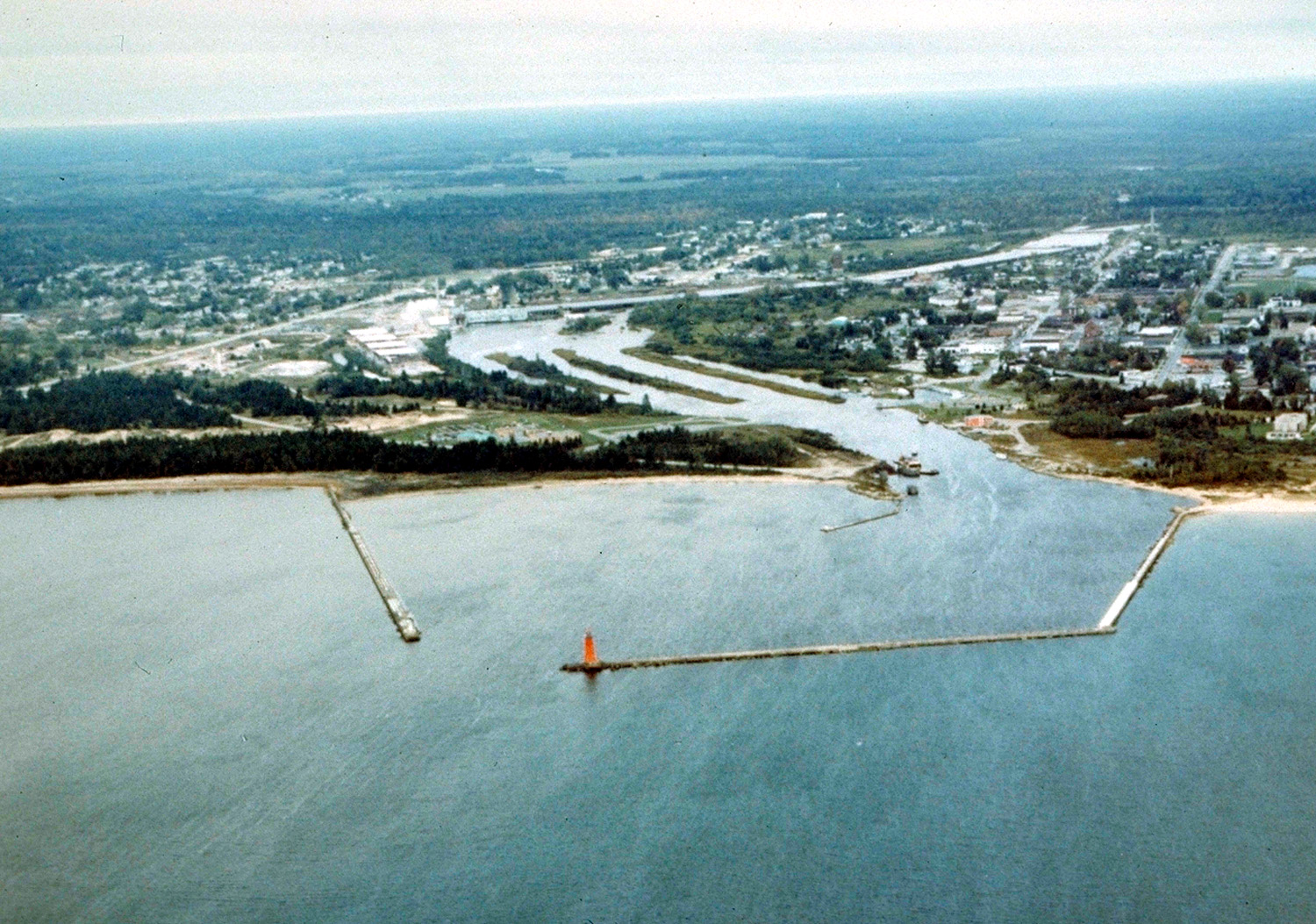 Aerial view of Manistique, Michigan, USA. The city lies on the northern shore of Lake Michigan in the Upper Peninsula of Michigan. The Manistique River flows through the town and into Lake Michigan through the harbor.